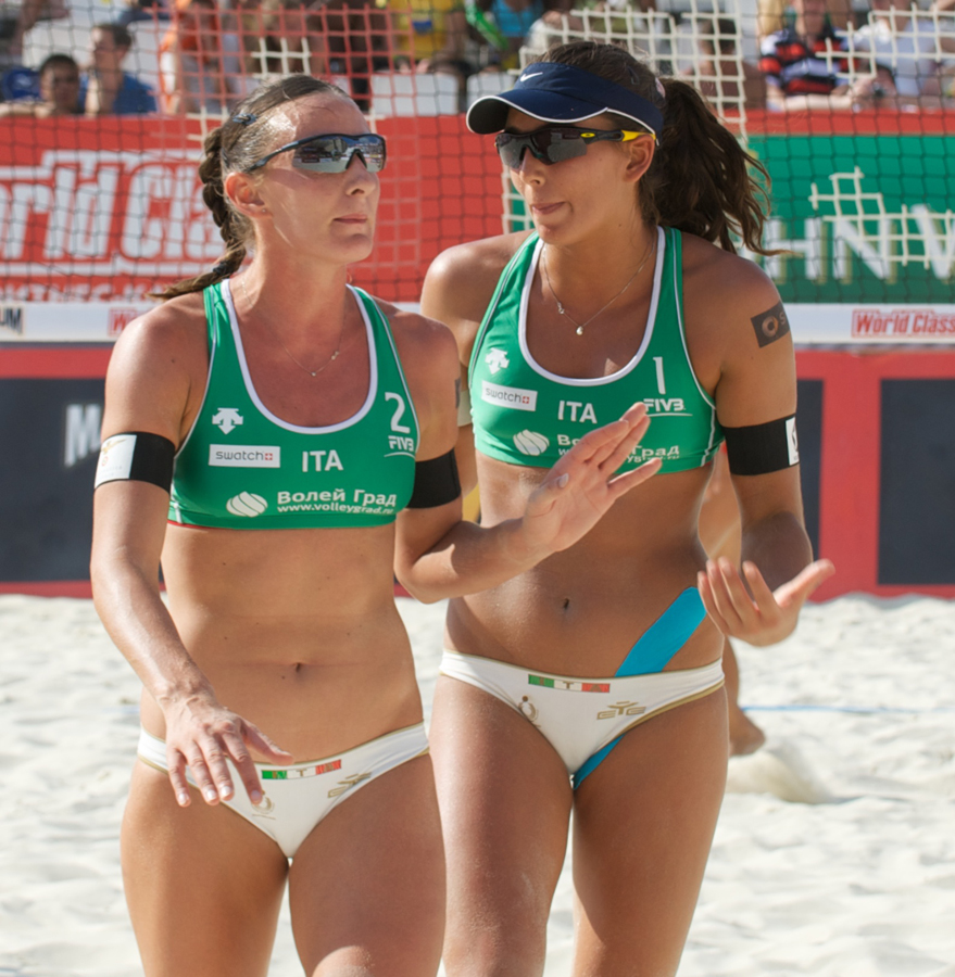 Grand Slam Moscow 2011